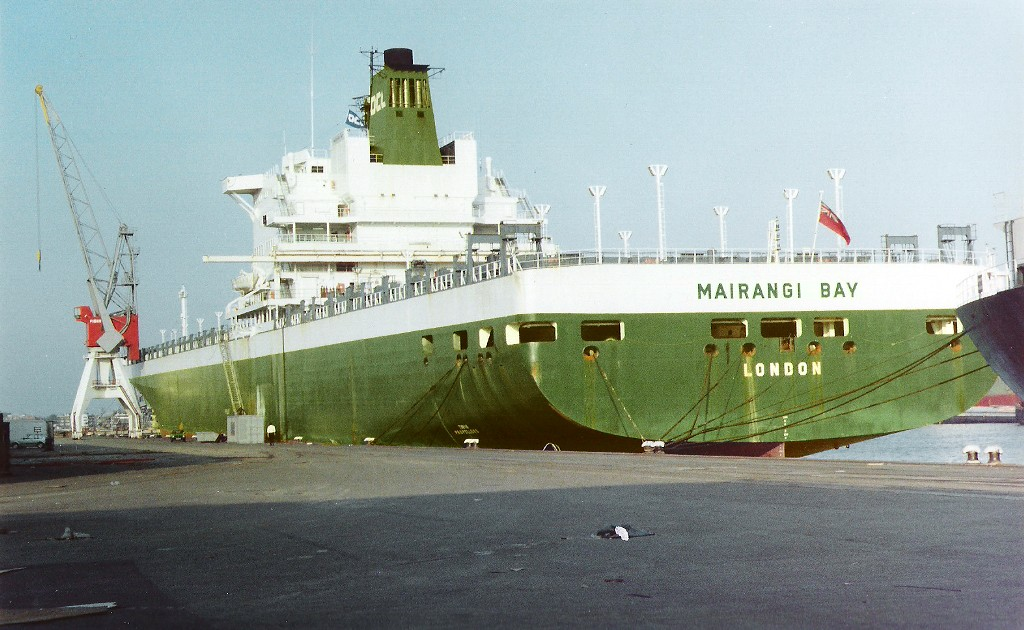 MV Mairangi Bay, Rotterdam, Netherlands 1983